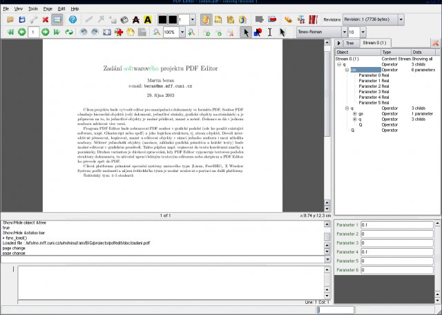 Screenshot of application PDFedit.